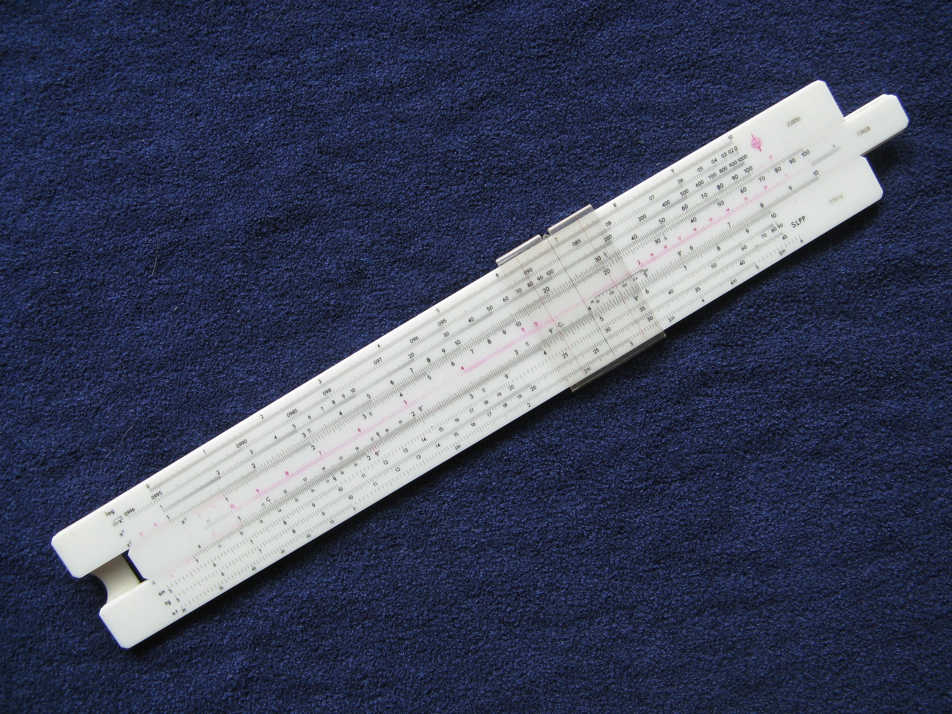 A logarithmic slider produced by the Polish company Skala, model SLPP, 2nd half of the 20th century.